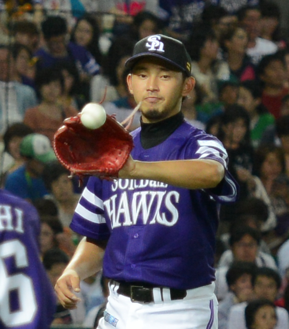 Shingo Tatsumi, pitcher of the Fukuoka SoftBank Hawks, at Fukuoka Dome.